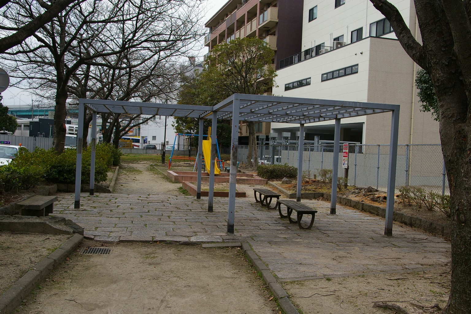 Higashi ku